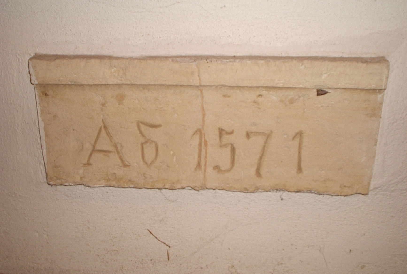 Epigraphy